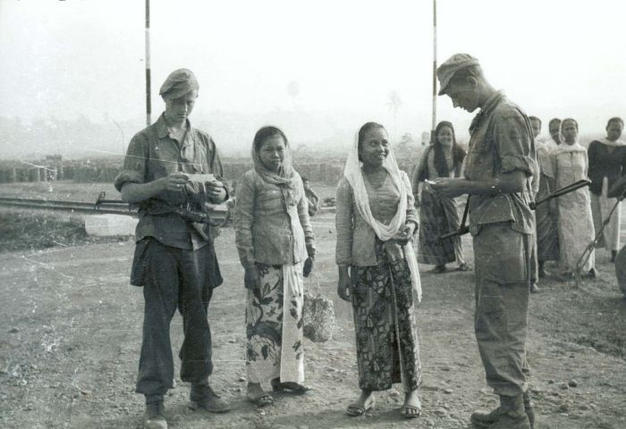 negatief. Dutch soldiers control the papers of javanese women in a transitcamp of the Sevens December Division near Tandjong Priok (or of another division from camp Doeri on Batavia)